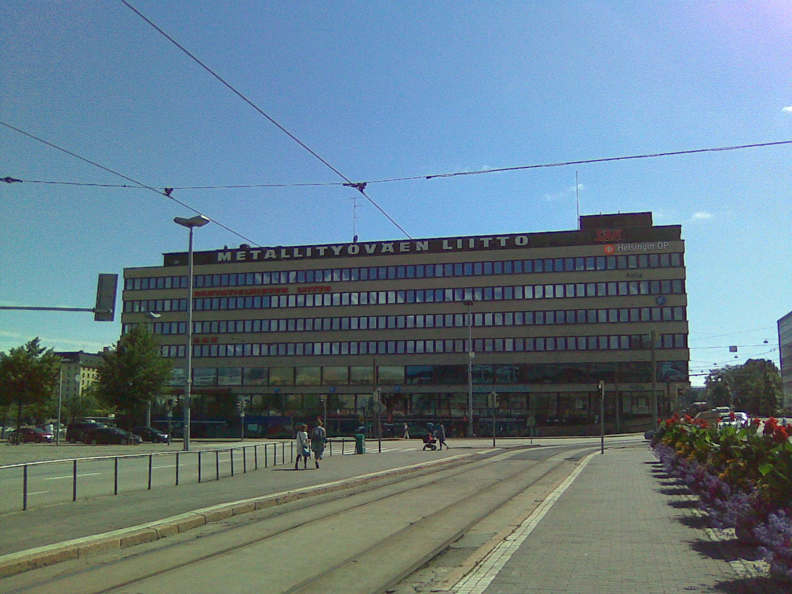 Central Organisation of Finnish Trade Unions, Hakaniemi, Helsinki